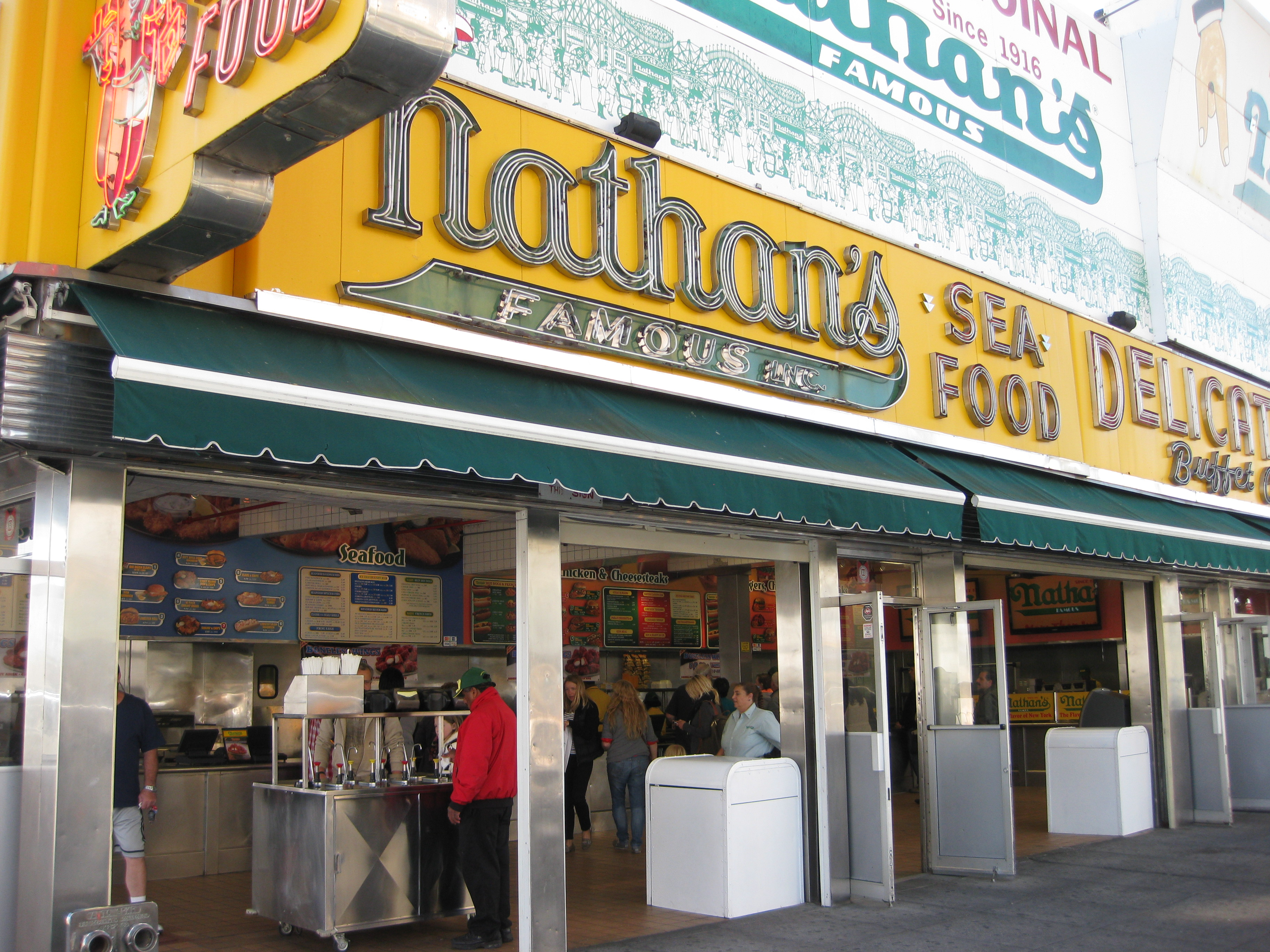 Coney Island, New York